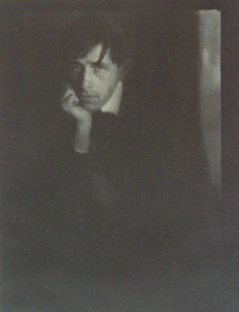 Clarence H. White